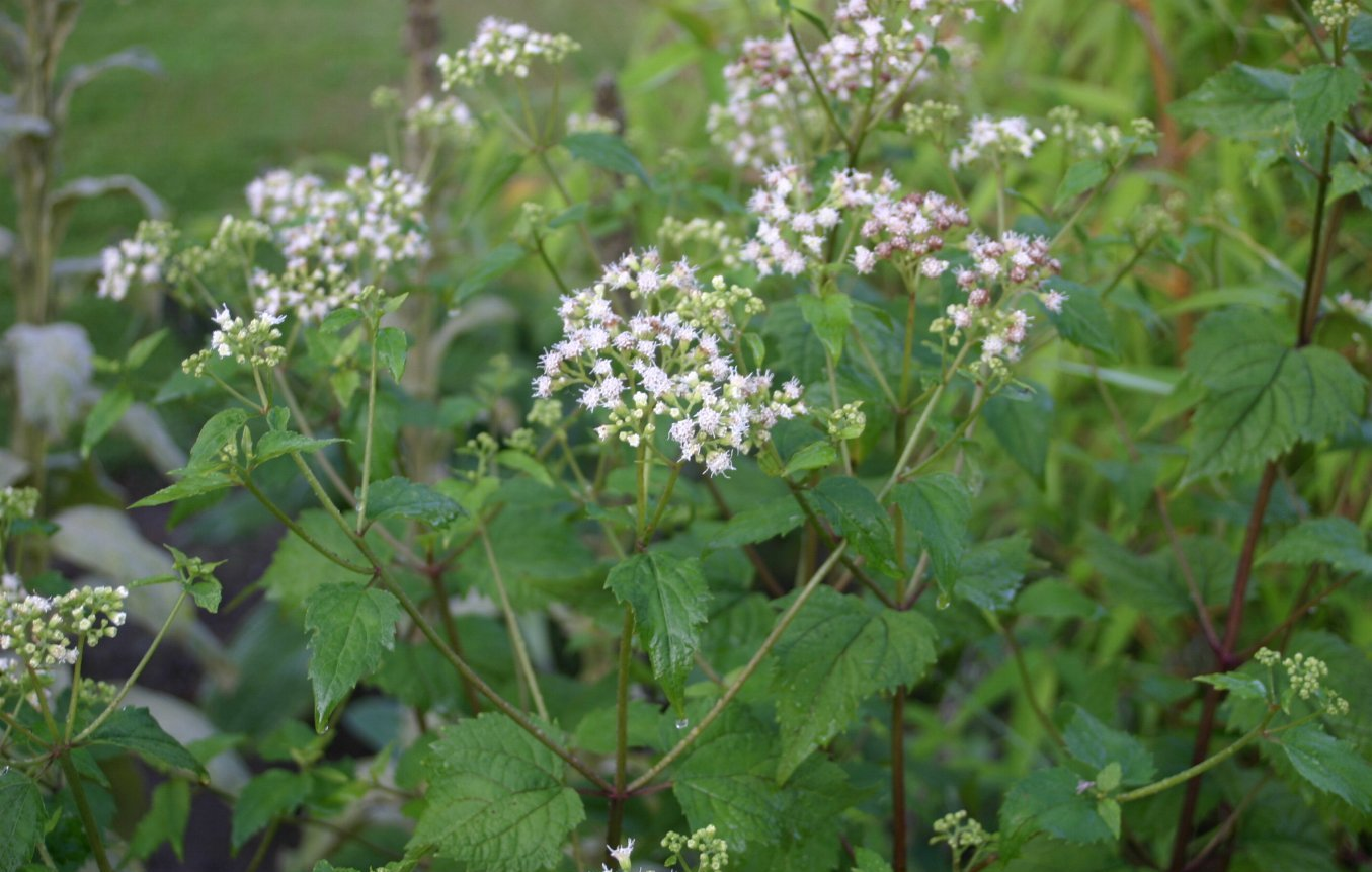 Ageratina altissima (syn. Eupatorium rugosum): flower umbels